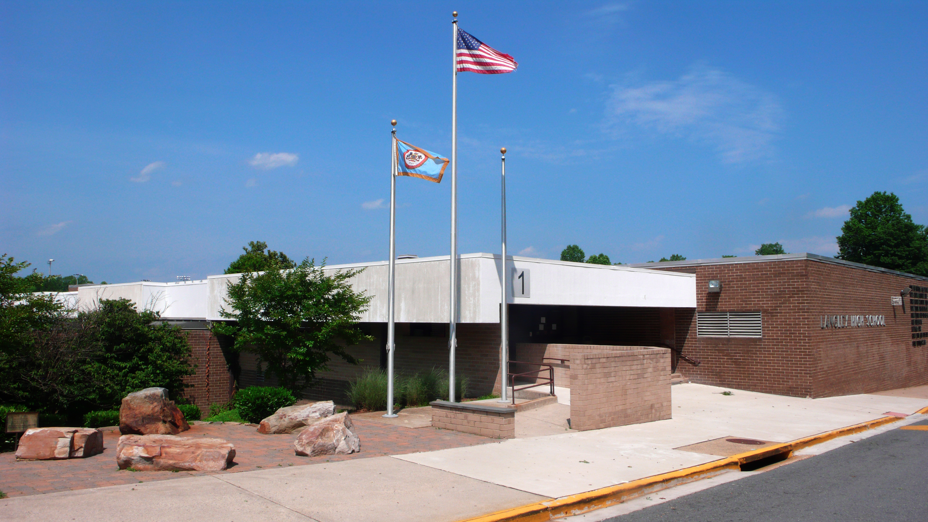 Front entrance of Langley High School in McLean Virginia. Visible on the left is the five stone memorial to the families affected by the September 11th attack on the Pentagon.